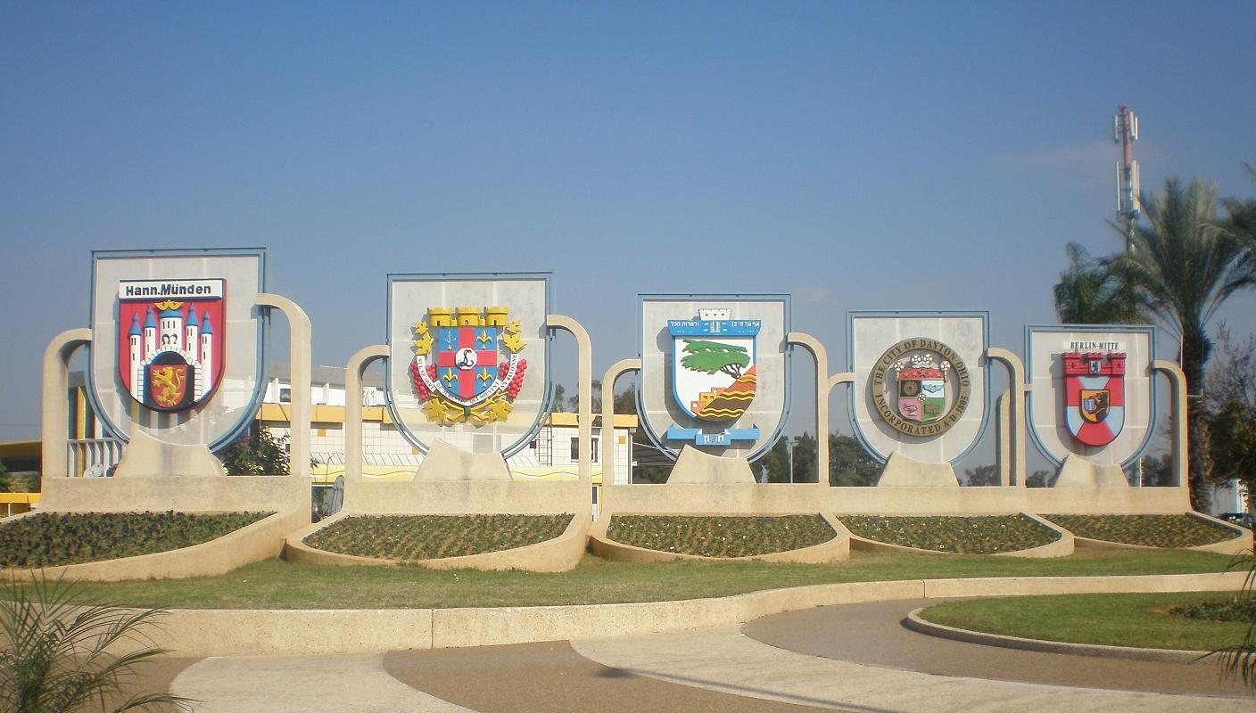 Holon, Israel, the Twin Towns Garden: The symbol of Holon and its four twin towns (left to right): Hann Münden, Germany; Suresnes, France; Holon, Israel; Dayton, Ohio; Berlin Mitte, Germany. Picture taken by David Shay